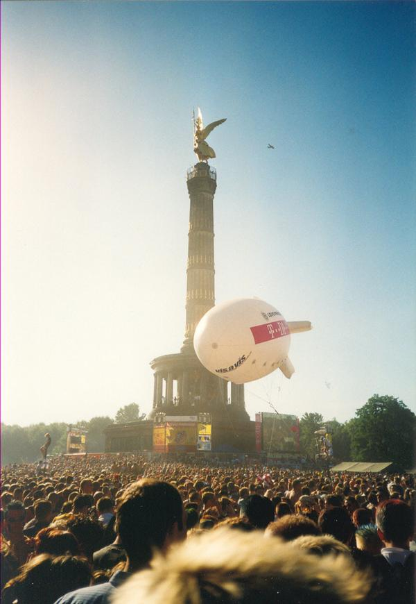 Siegessäule during Loveparade 1999, Berlin